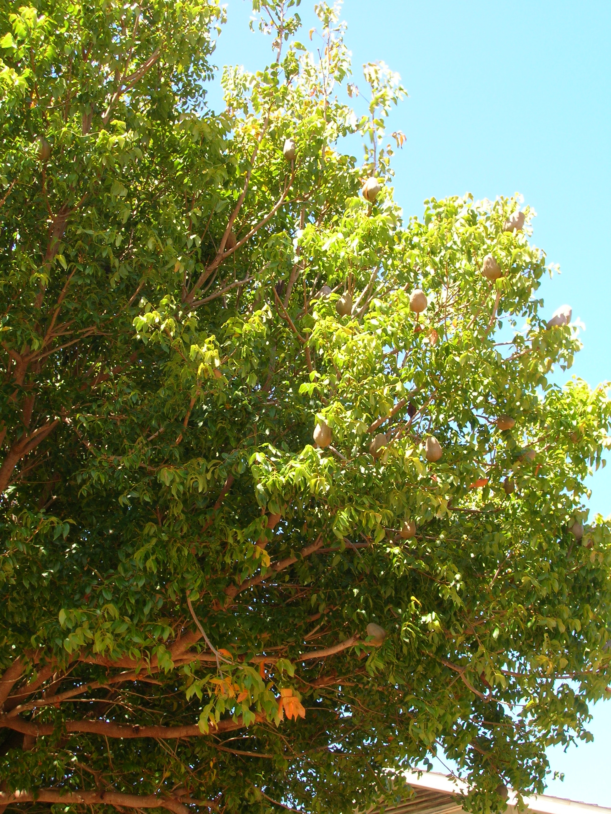 Swietenia mahogani (habit). Location: Molokai, Maunaloa